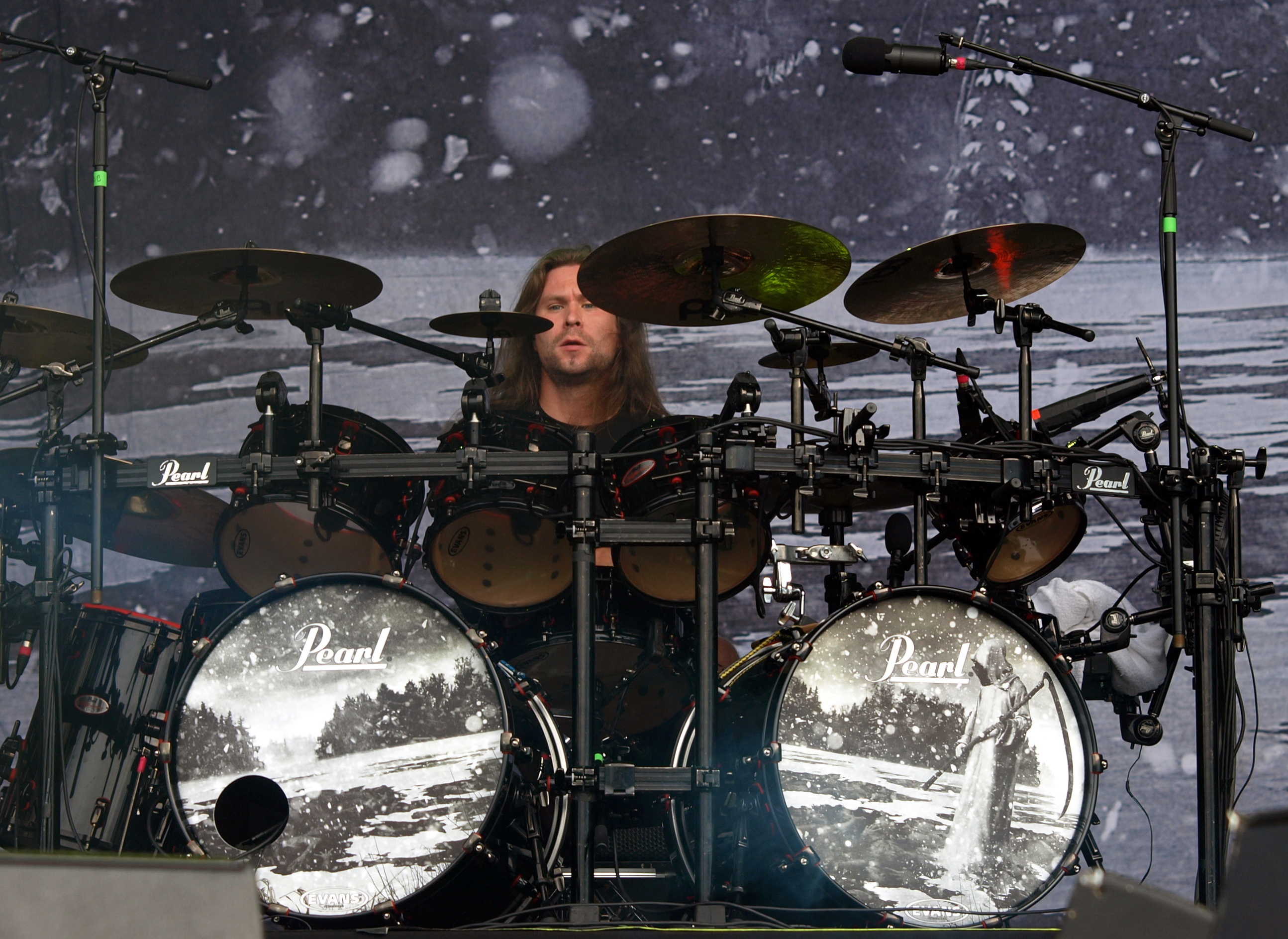 Finnish band Children of Bodom live at Provinssirock 2013